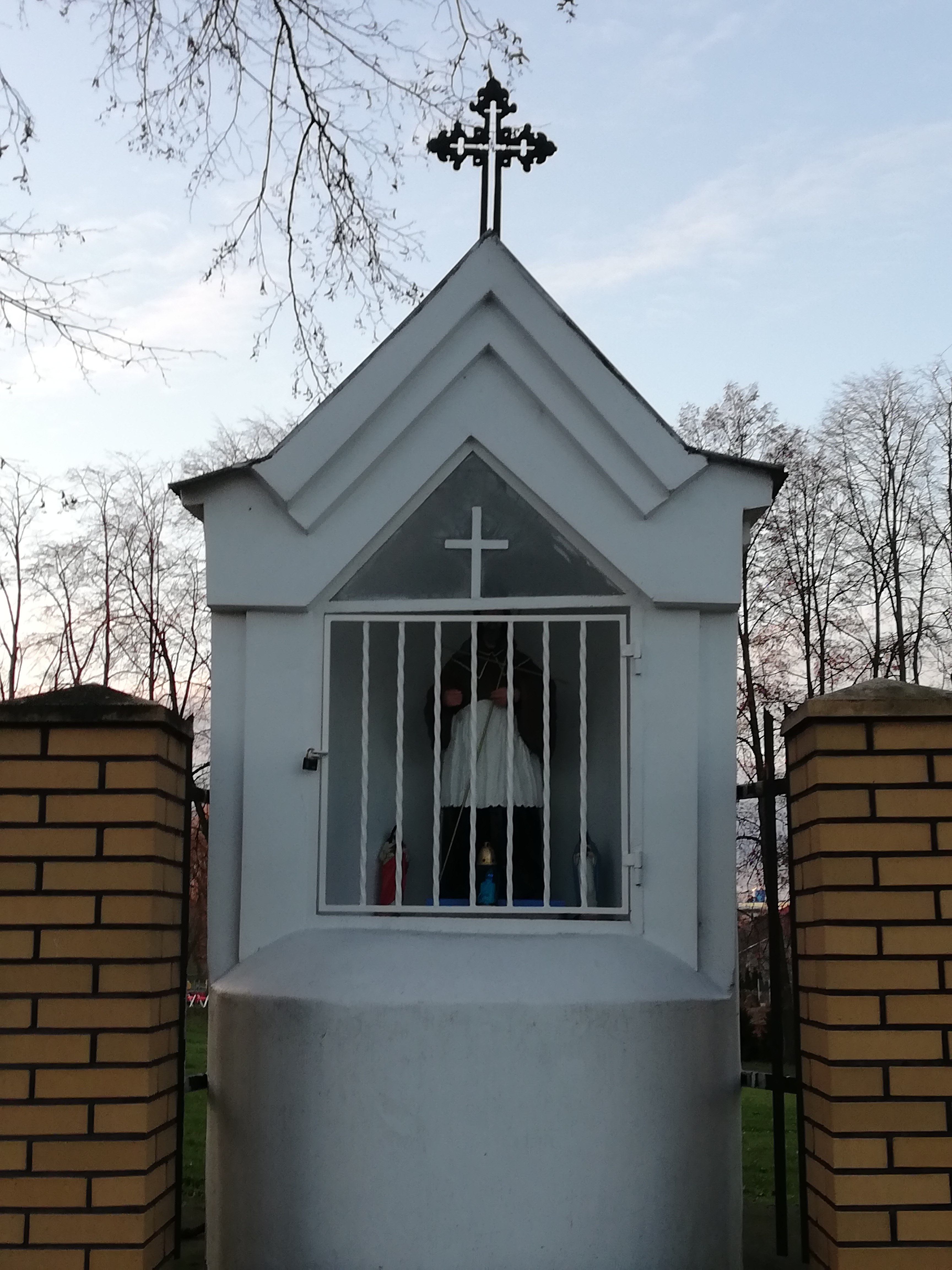 Chapel of Saint John Nepomucen in Zambrów